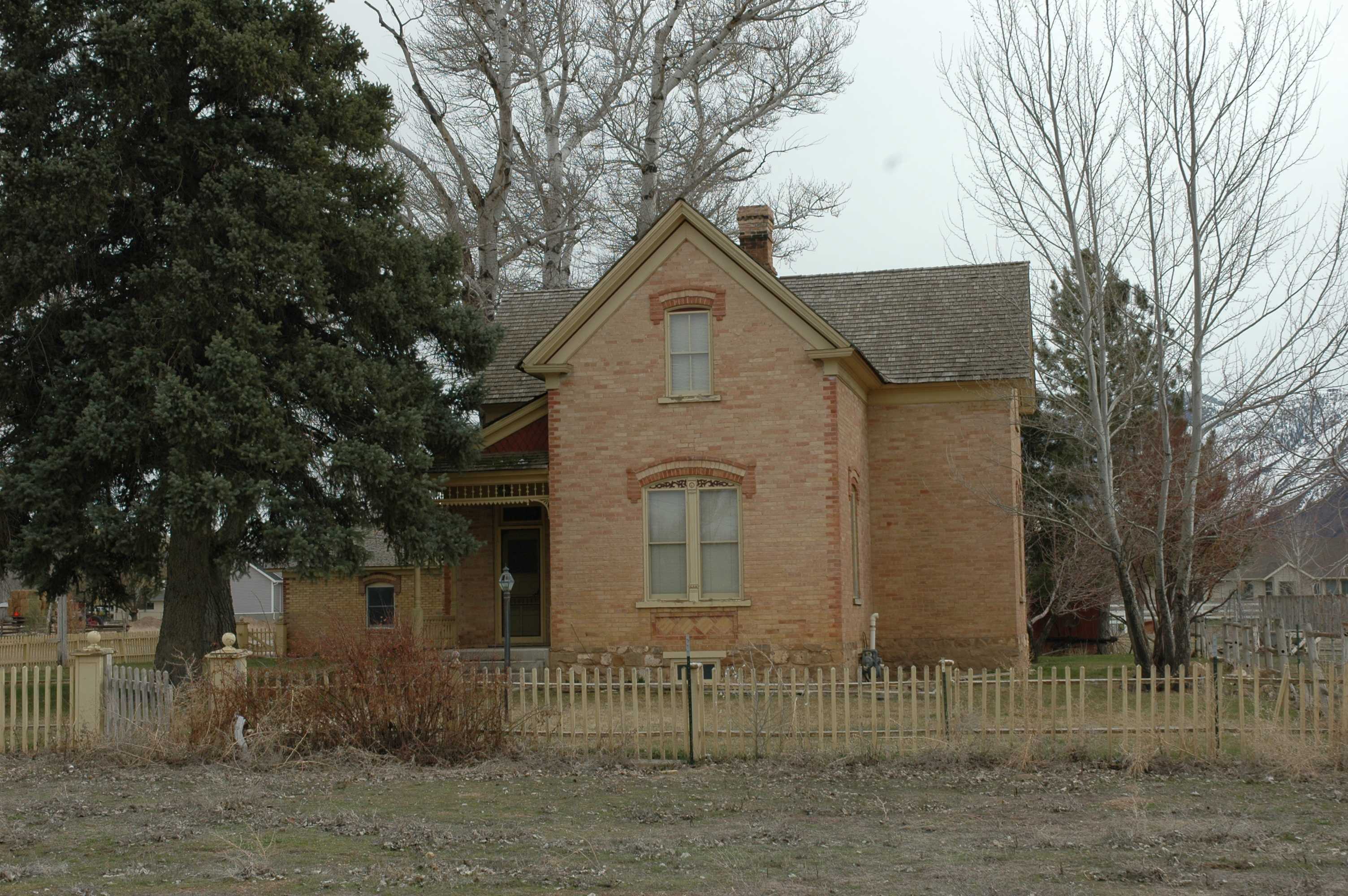 The Peter Quarnberg House, a historic home in Scipio, Utah, United States.